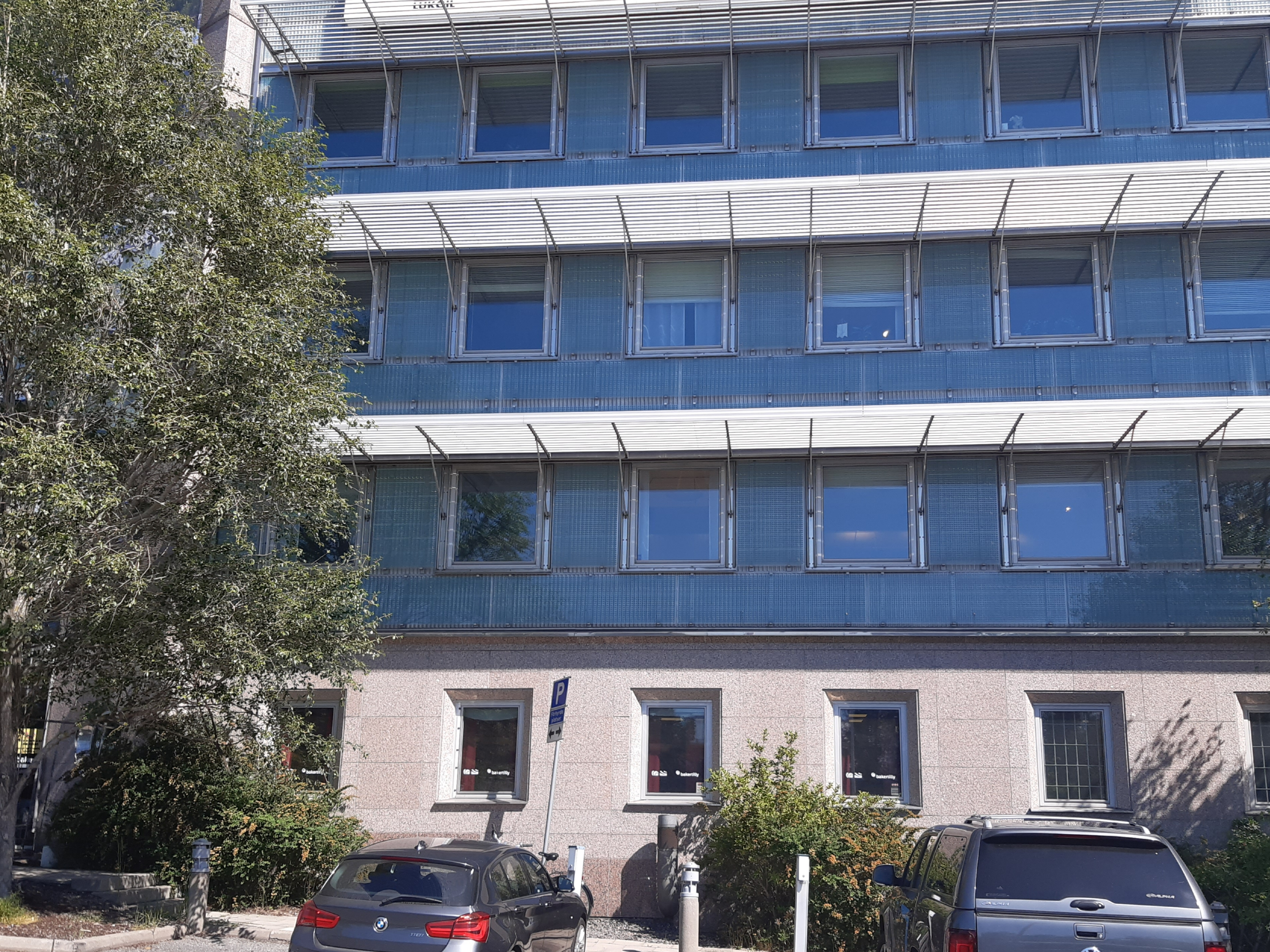 Embassy of Belarus in Sweden (Nacka, Stockholms County).